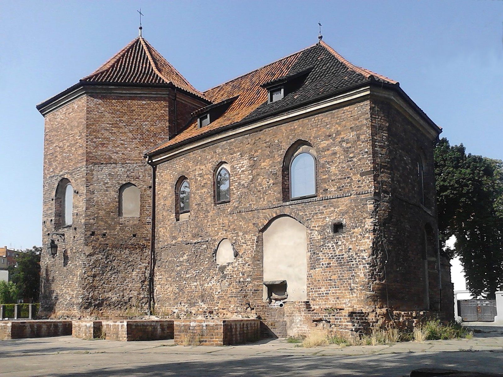 St. Martin's Church in Wrocław